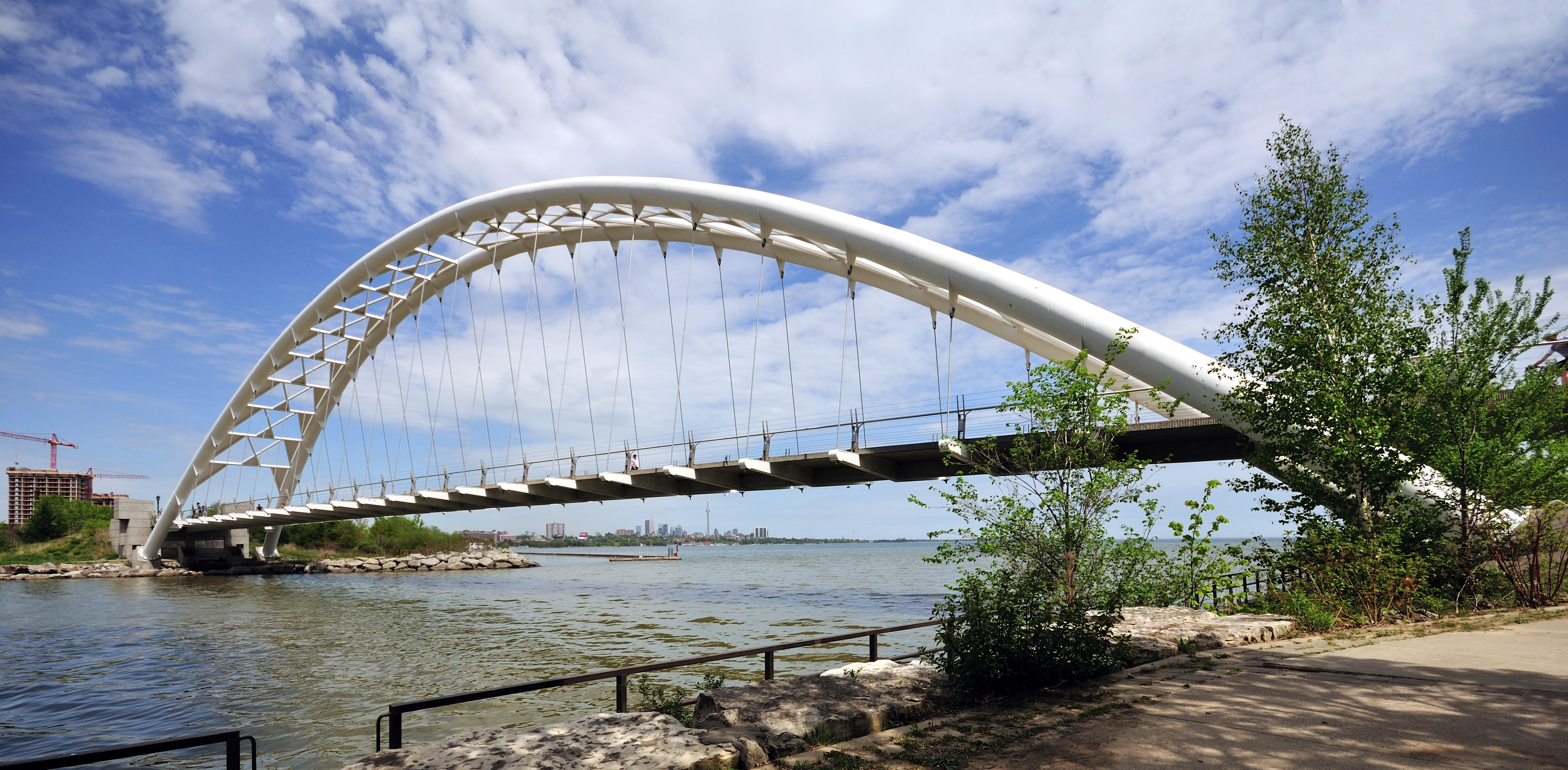 Humber Bay Arch Bridge and Humber Bay, in background Toronto Skyline is visible